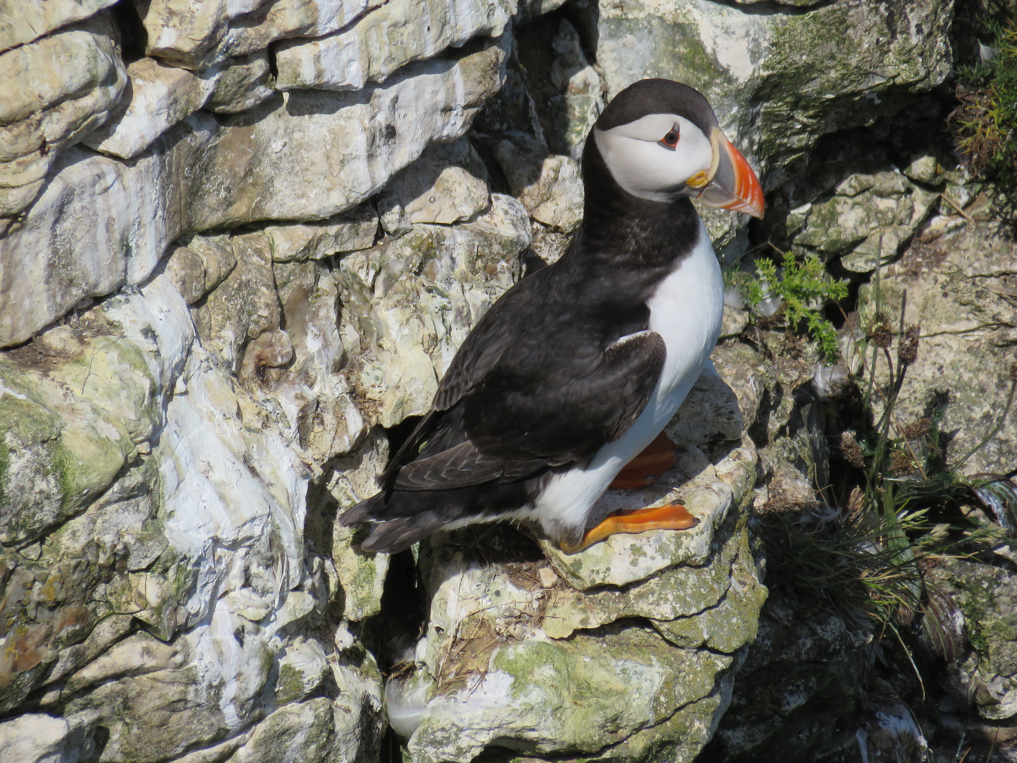 puffin, RSPB Bempton Cliffs